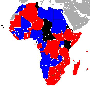 2018 African Nations Championship Qualification